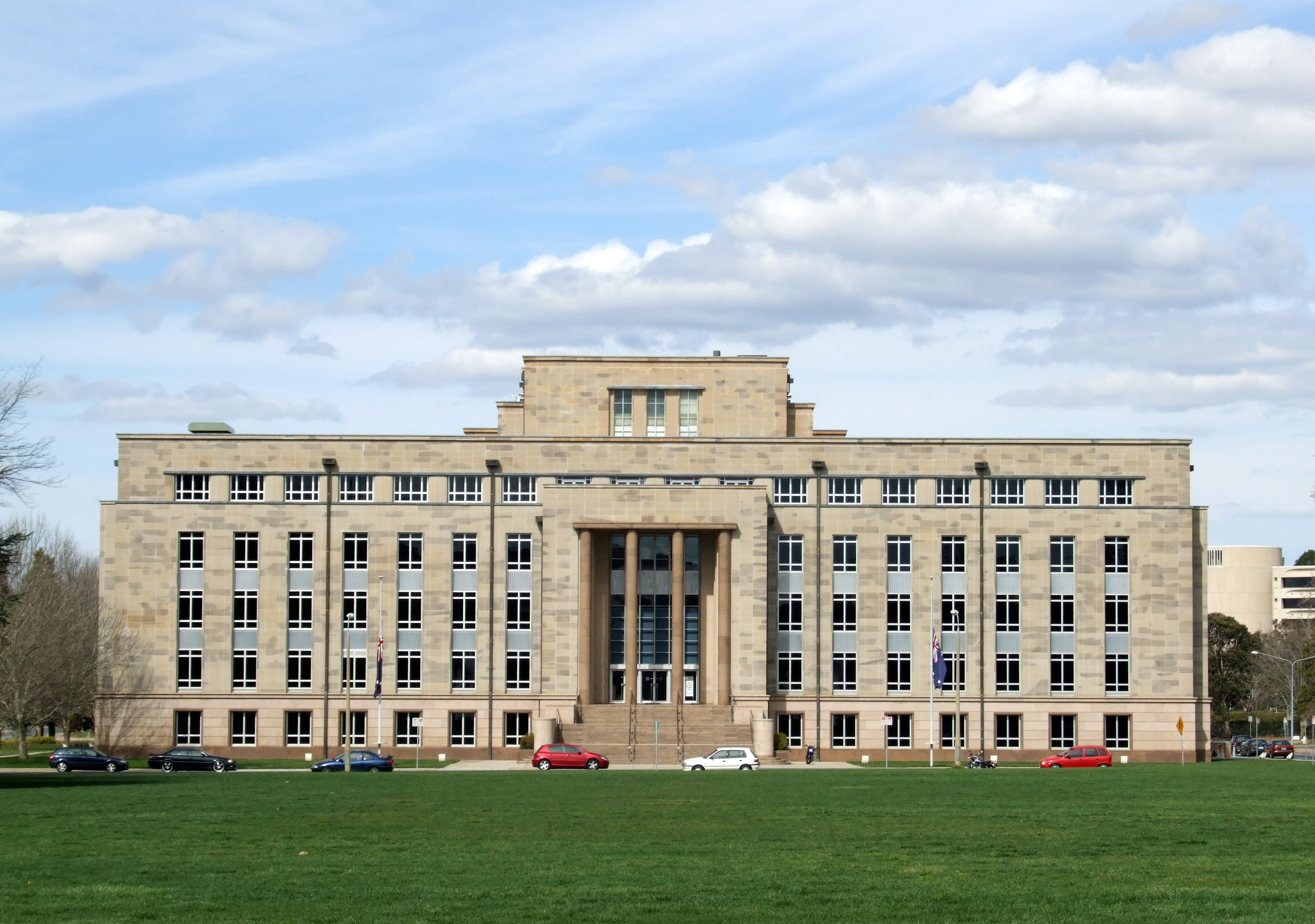 Department of Finance and Administration (John Gorton Building) at King Edward Terrace, Canberra